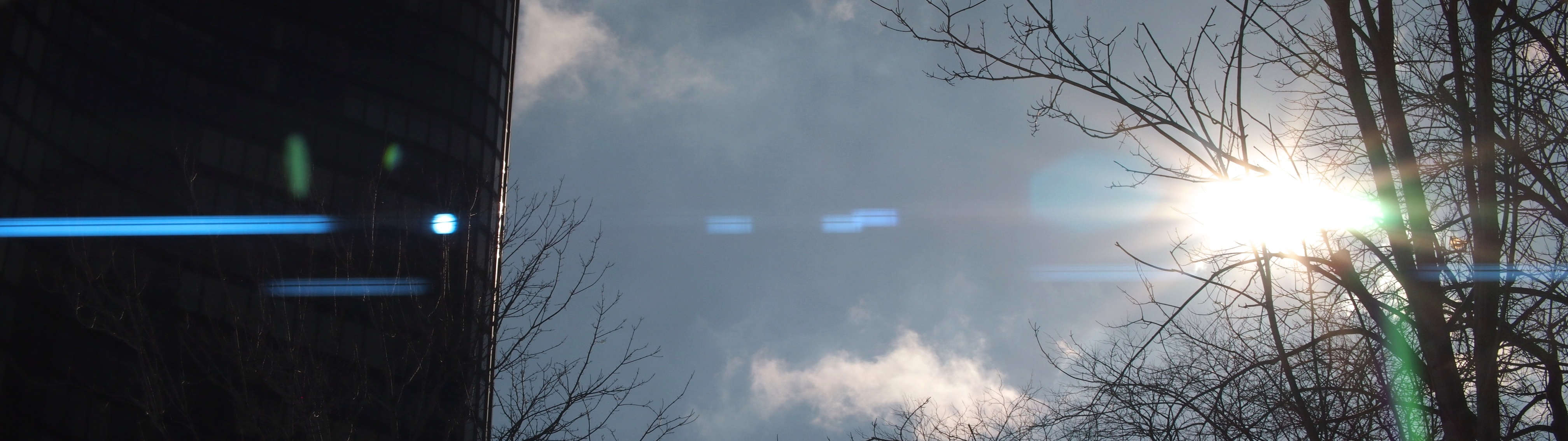 Anamorphic stills shot with an Olympus E-P3, 45mm lens, and a vintage 2x anamorphic cinema lens.